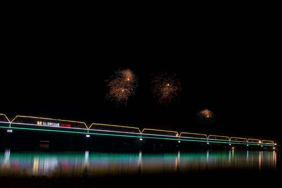 Saraighat is a place near Guwahati in Assam, on the north bank of the river Brahmaputra. Sarai was a small village where the old abandoned N.F. Railway station of Amingaon was located. The famous Battle of Saraighat was fought near this place on the river. There is a road-cum-rail bridge over the river Brahmaputra joining the north & the south banks at Saraighat. This bridge is the first bridge on river Brahmaputra in Assam.